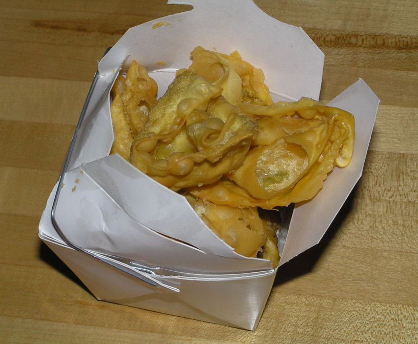 Fried Wonton